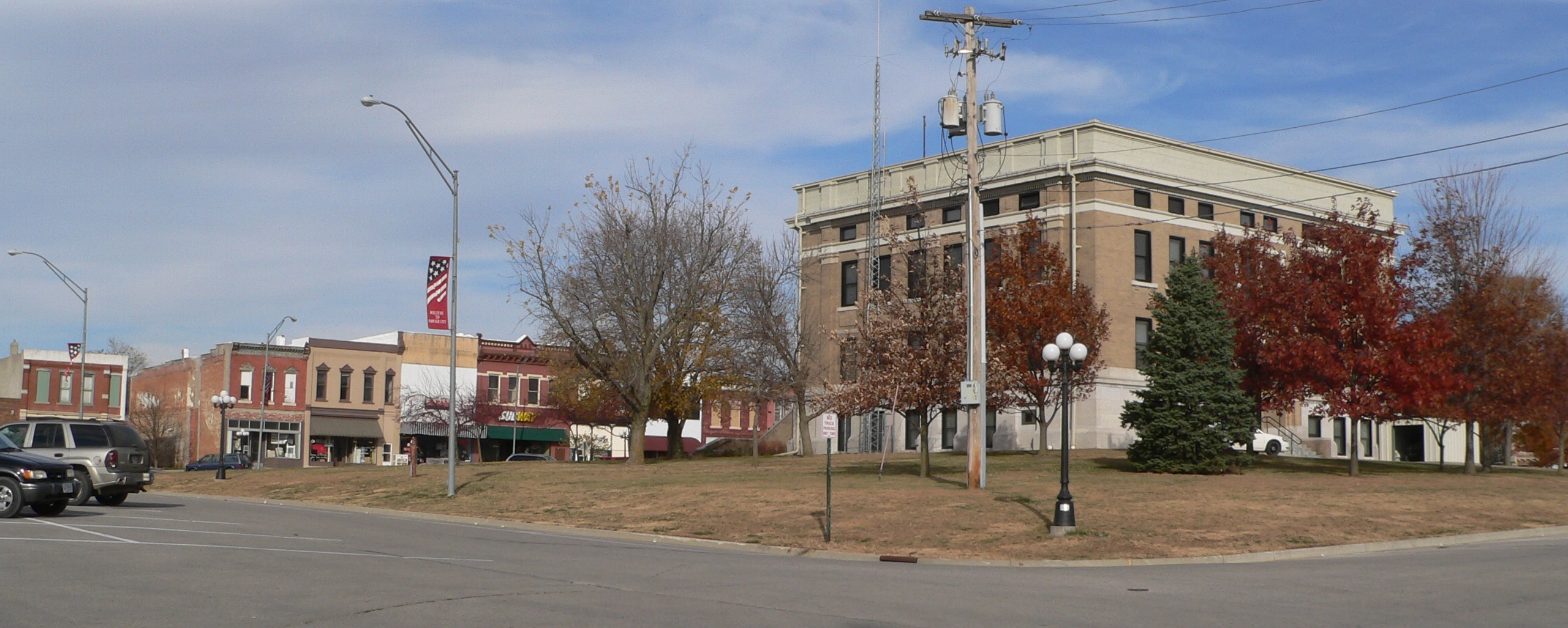 Pawnee County Courthouse in Pawnee City, Nebraska; seen from the southwest. The buildings in the left background are on 6th Street.